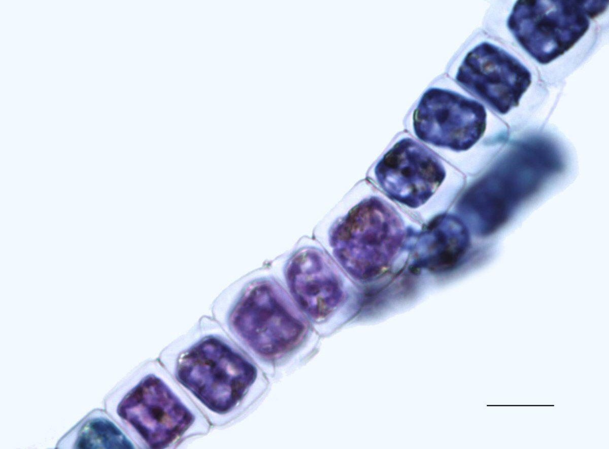 Light microscopy of Ectocarpus showing a filament of cells, within which nuclei can be seen along with the cell walls. Scale bar = 0.02mm.